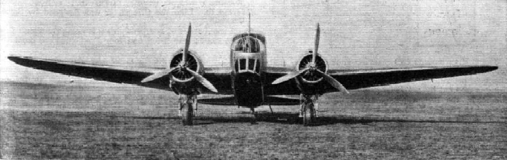 An Italian Regia Aeronautica Fiat BR.20 in 1938.